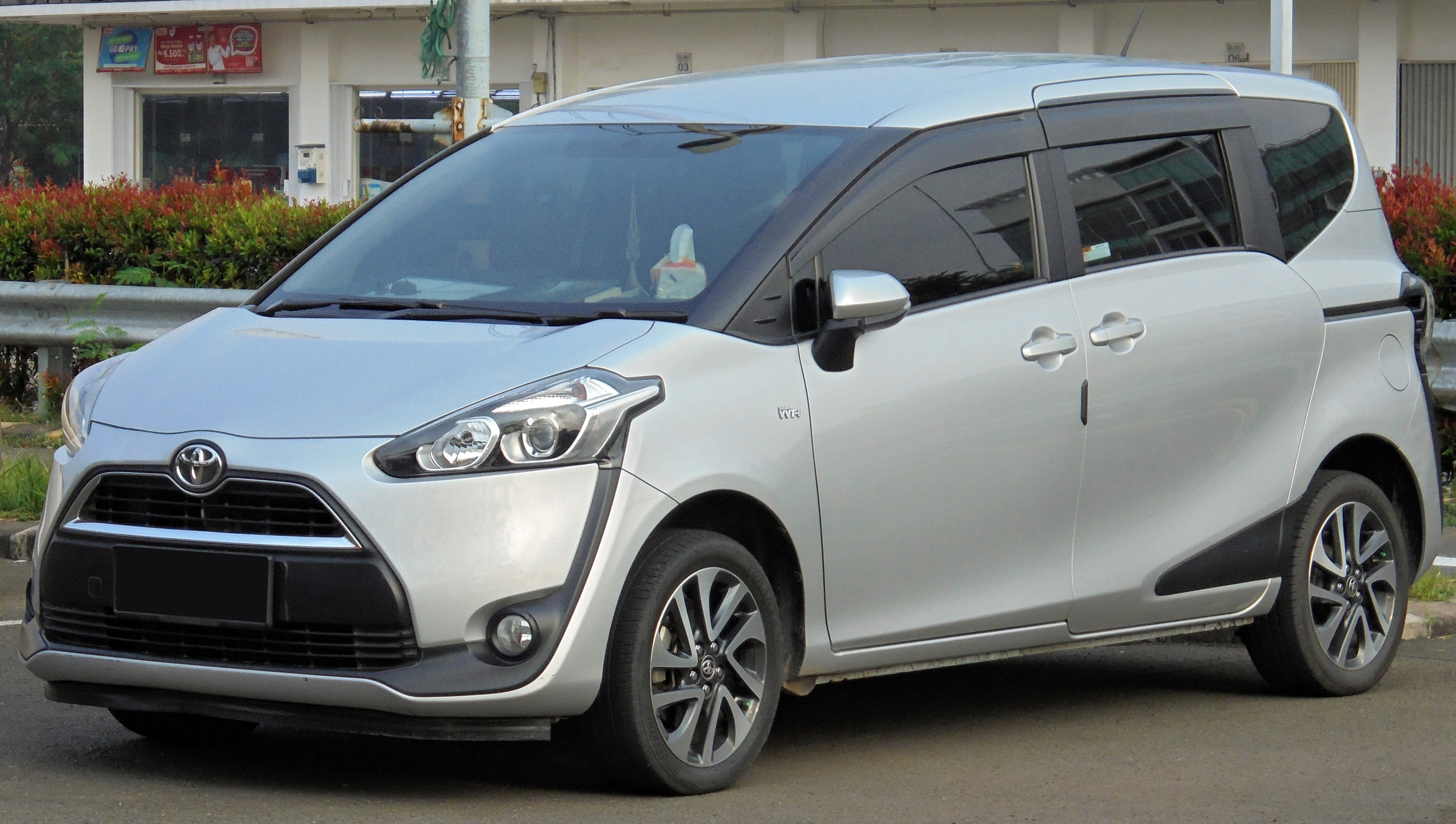 2016 Toyota Sienta 1.5 V (NSP170R)